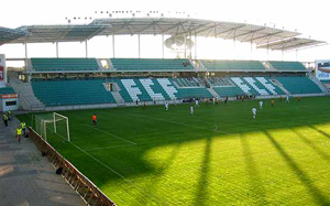 took the pic myself